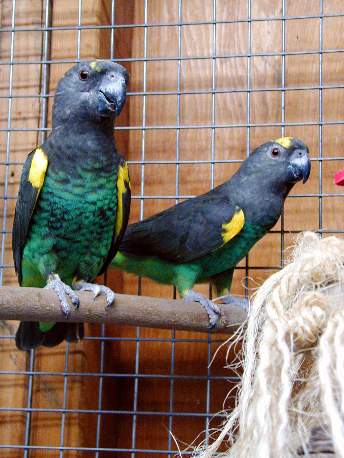 Meyer's Parrot in captivity.